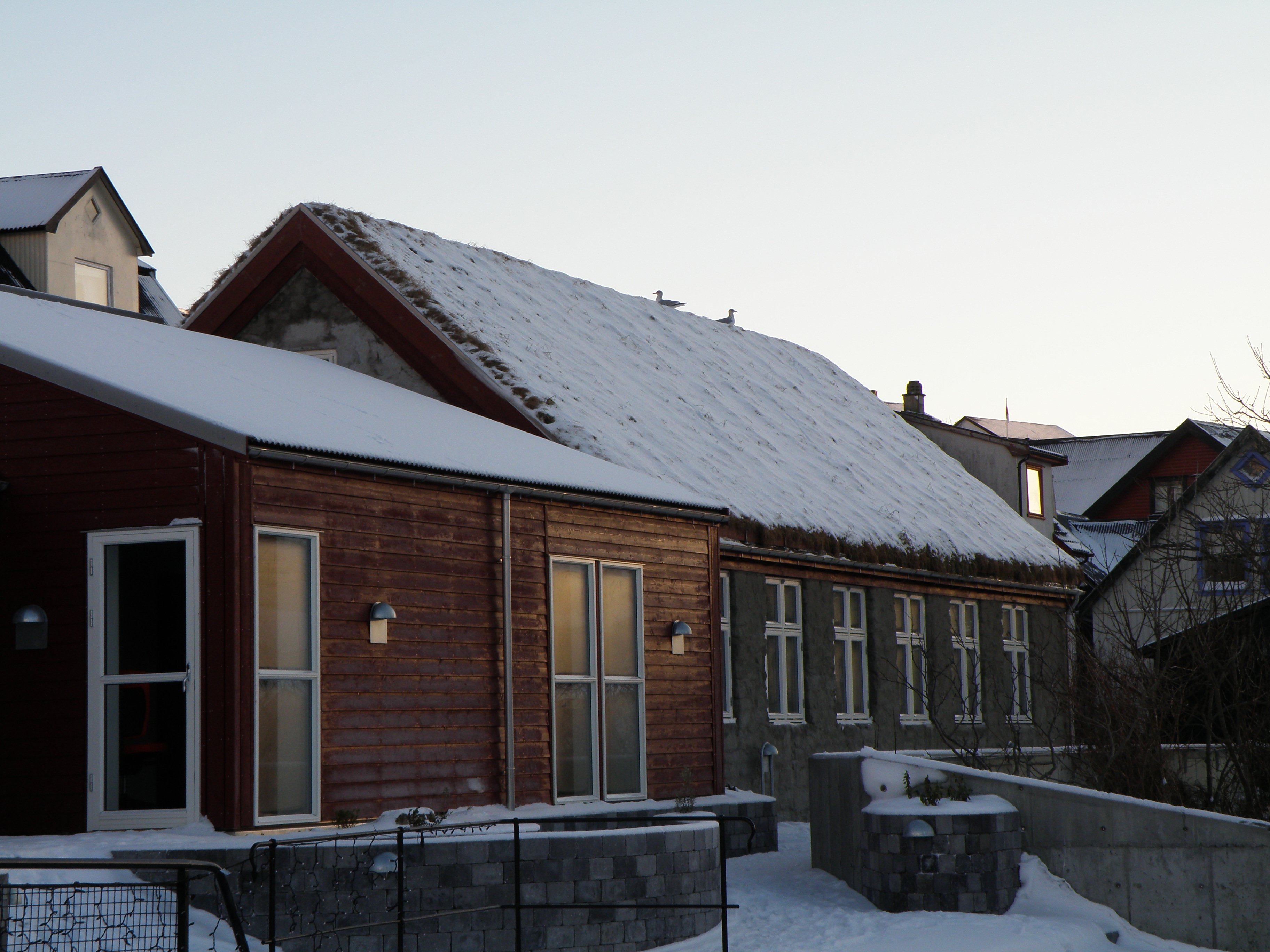 The Old School of Sørvágur was built from 1885 to 1887. Now it is the Music School of Sørvágur. Sørvágur is a village on Vágar island in the Faroe Islands.